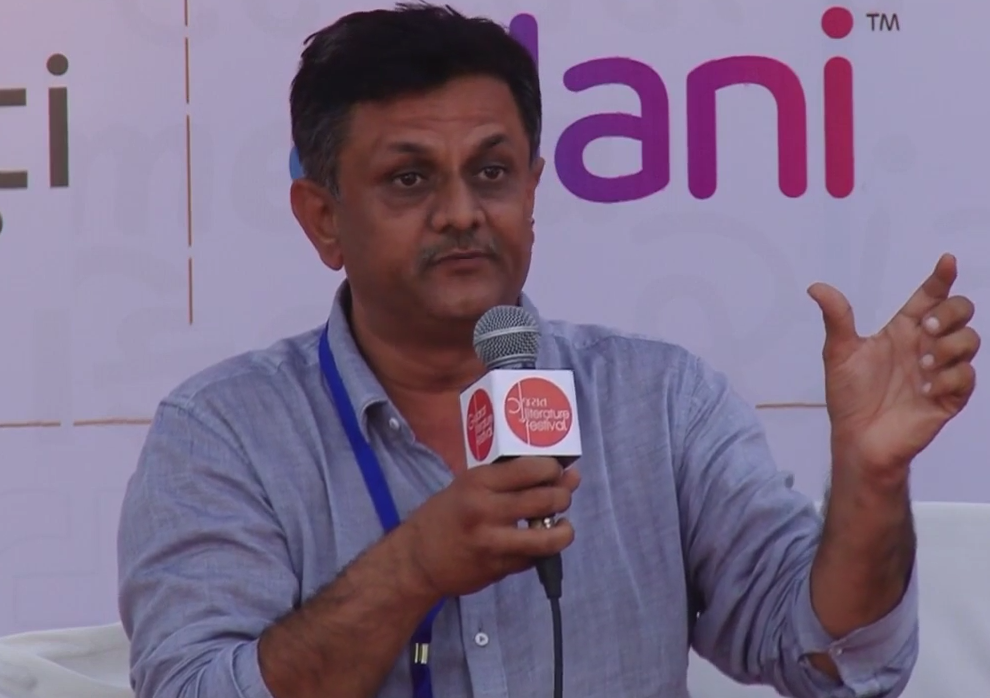 Gujarati writers Mahendrasinh Parmar at Gujarati Literature Festival (GLF), December 2016